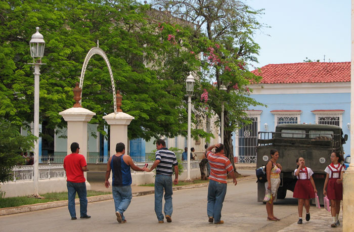 Wilder - my own stock